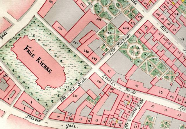 Lille Fiolstræde as well as the area around Church of Our Lady in Copenhagen, Denmark. Frue Plads has not yet been established.